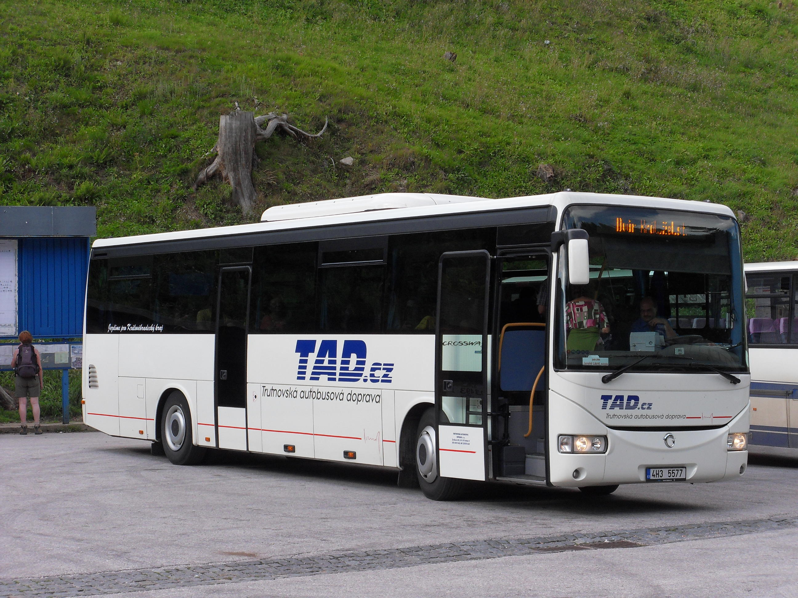 Irisbus Crossway bus of Trutnovská autobusová doprava, bus station, Pec pod Sněžkou, Czech Republic